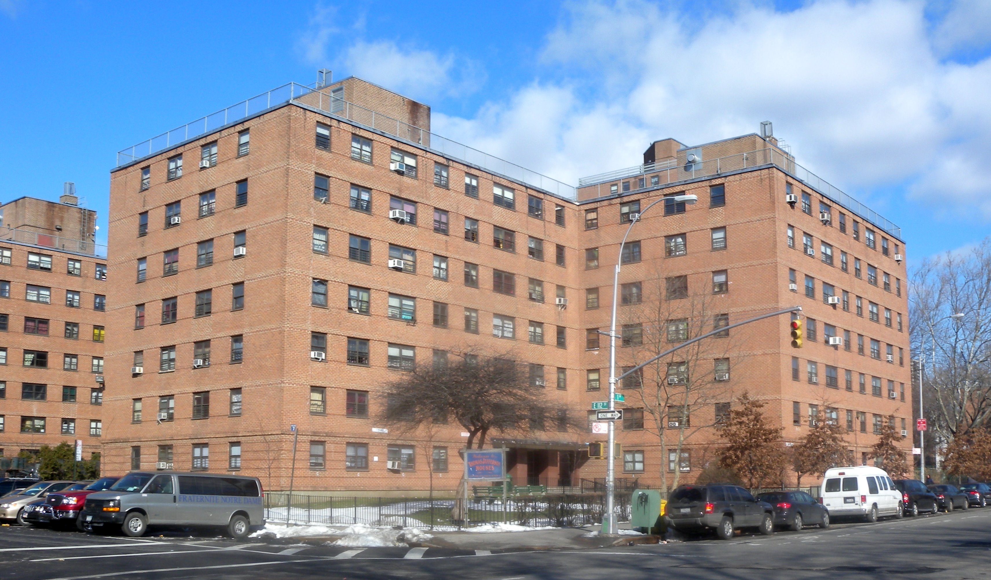 Looking north across 1st Avenue and 111th Street at Thomas Jefferson Houses on a sunny midday.